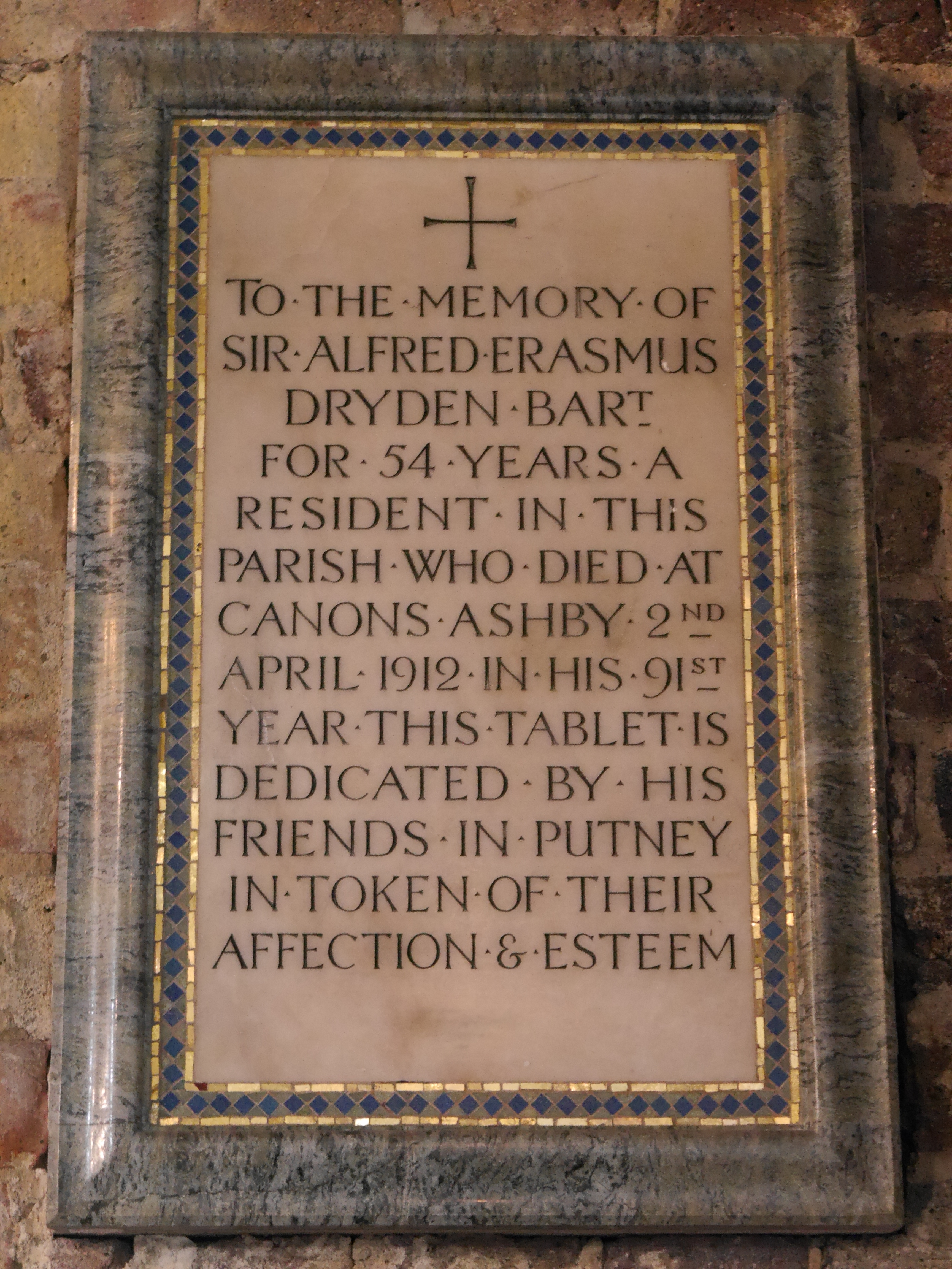 St Mary's, Putney Wikidata has entry Q7590181 with data related to this building.